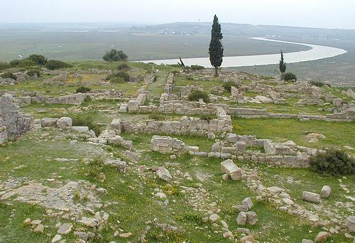 The ruins of Lixus, Morocco